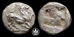 Old Macedonia - Aigai- Before 520-500 BCE AR Trihemiobol Goat kneeling right raising right foreleg Quadripartite incuse square